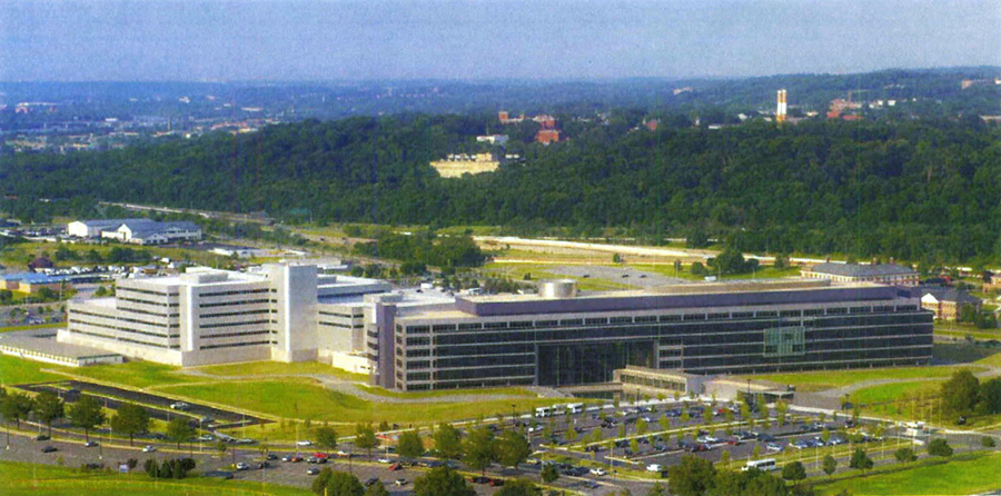 The Defense Intelligence Agency (DIA) Headquarters from Potomac, Washington DC